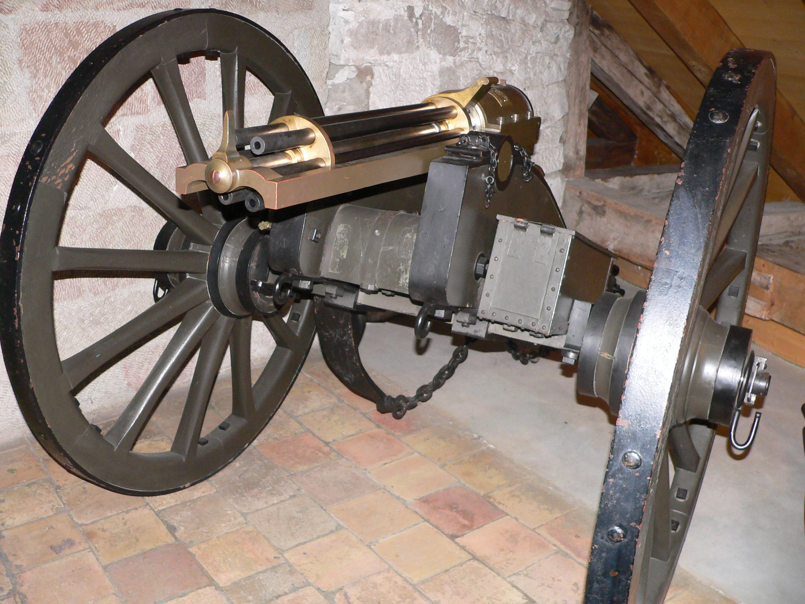 Gatling machine gun, museum of Morges castel, Switzerland. 1866 Model; .50 caliber.